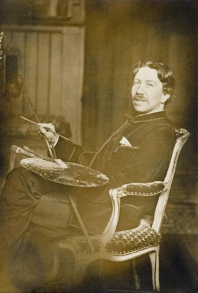 Nicolaas Bastert aan het werk